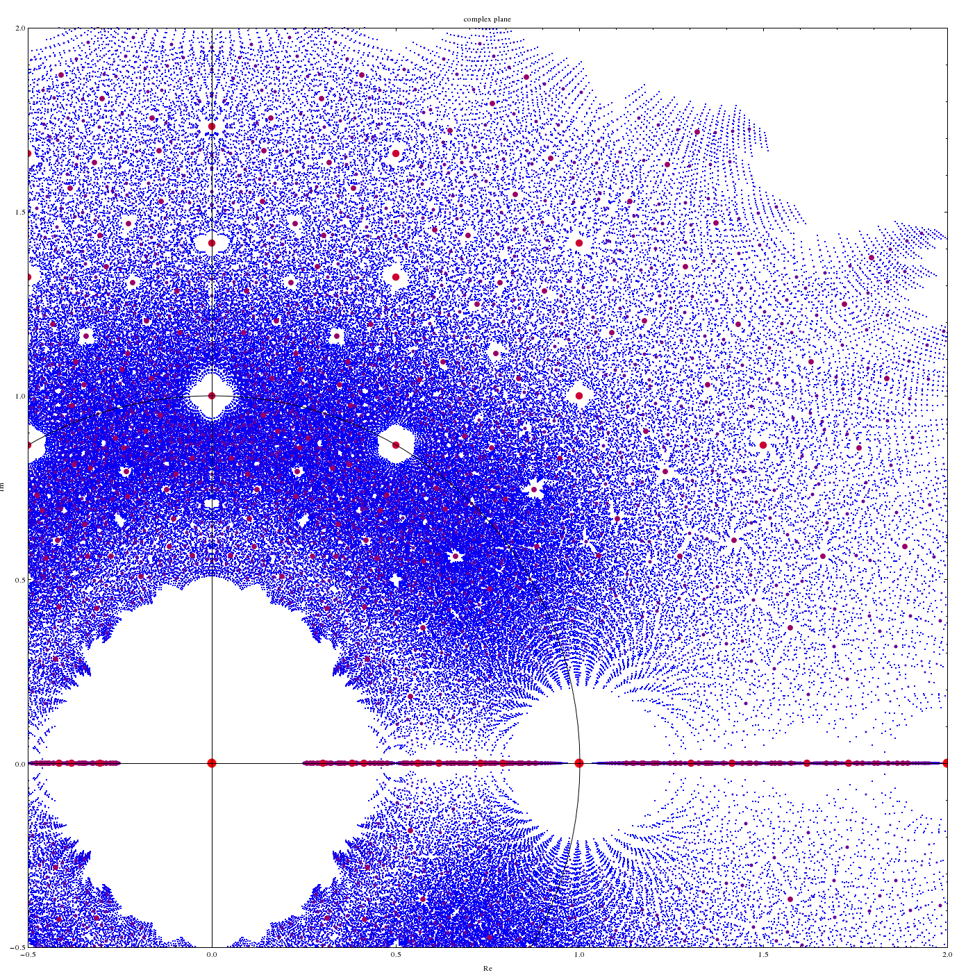 The plot represents the algebraic integers in the complex plane. Low degree algebraic integers are colored red and bigger. Higher degree algebraic integers are colored blue and smaller.